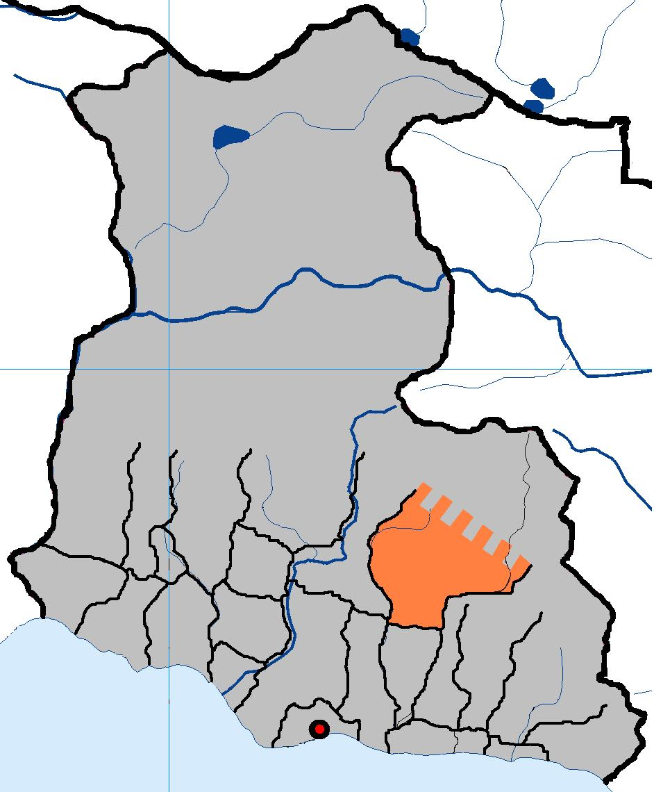 Locator map of Abkhazia